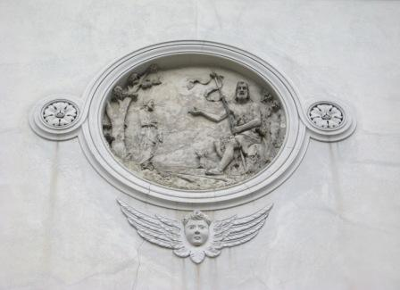 Terracotta medallion plaque on the facade of the church of Canale d'Agordo, portraying Jesus with the Baptist in 1859.